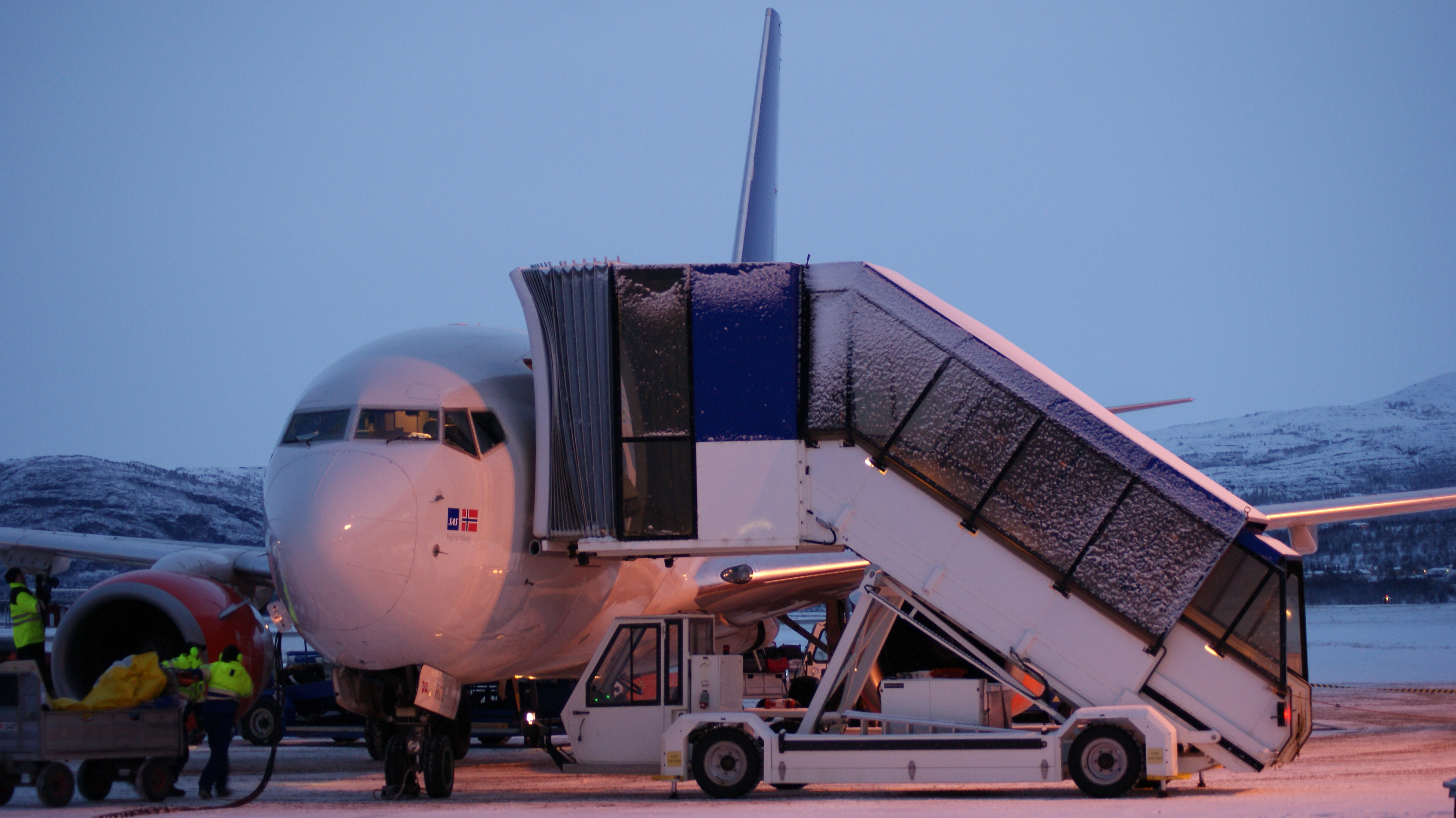 SAS Boeing 737-600 undergoing refueling between flights in ALF, Alta Airport, Norway